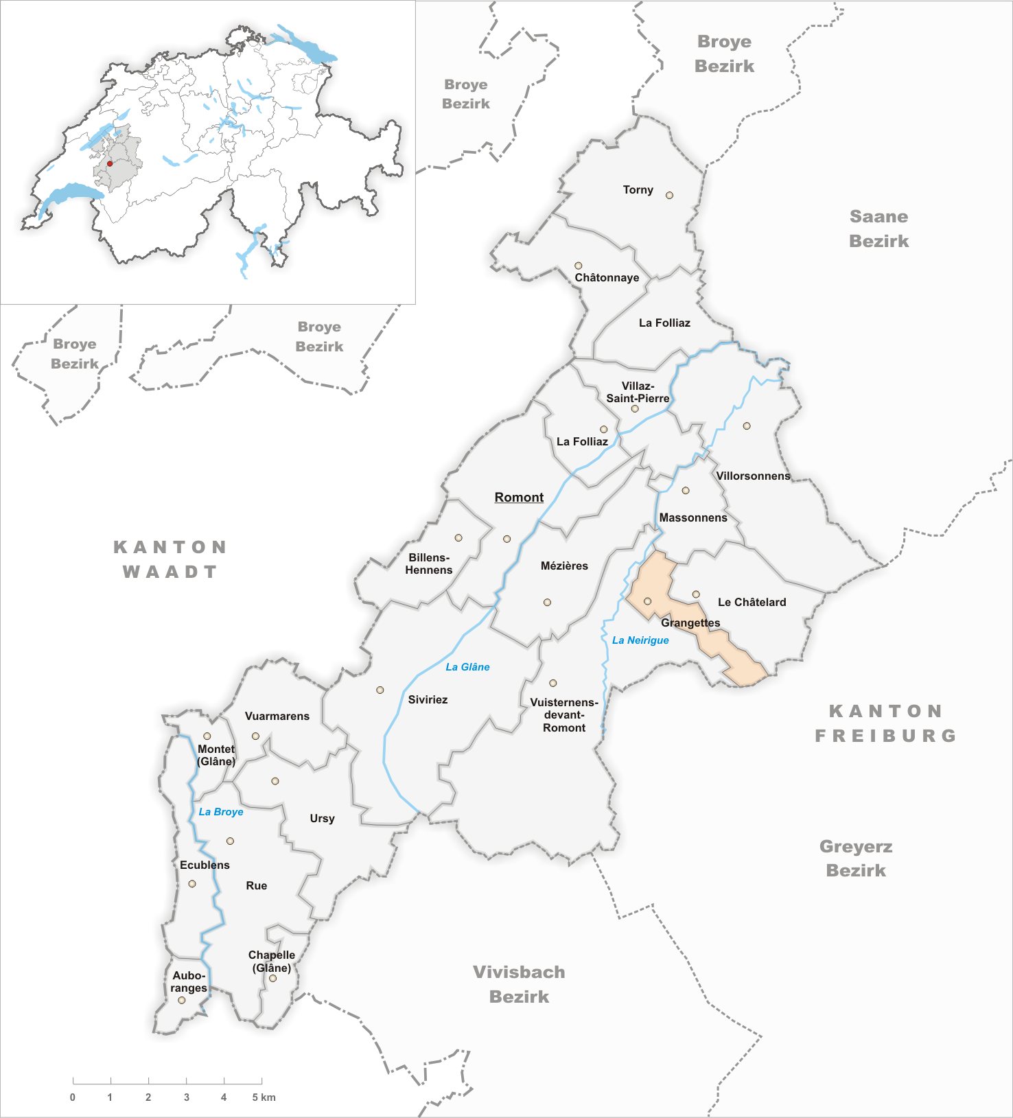 Municipality Grangettes